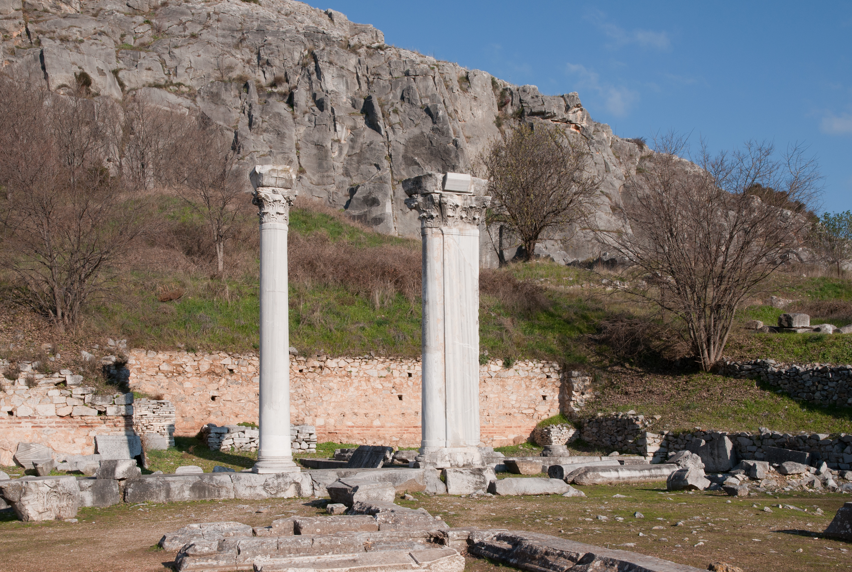 The archaeological site of Basilica A in the ancient town of Philippi, Greece.